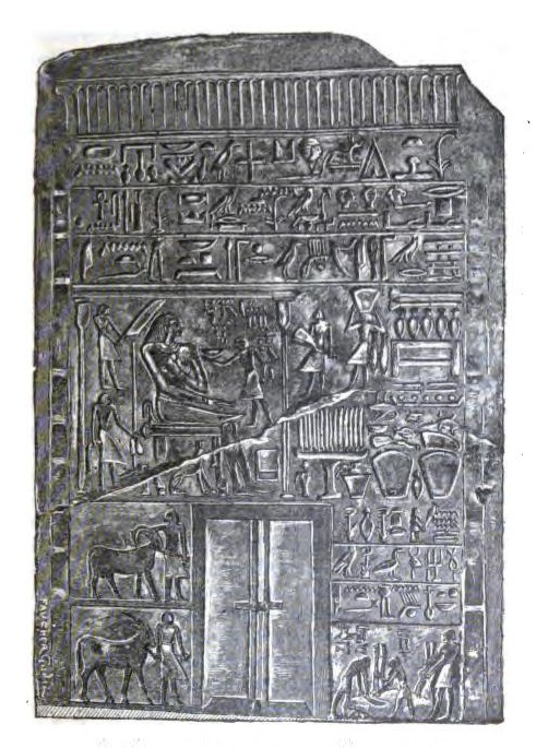 False-door shaped stele of prince Intef, nomarch of Thebes, here depicted receiving offerings from his servants. Limestone, H. 104 cm, from Dra Abu el-Naga, proto-11th dynasty, First intermediate period. Cairo, Egyptian Museum CG 20009.